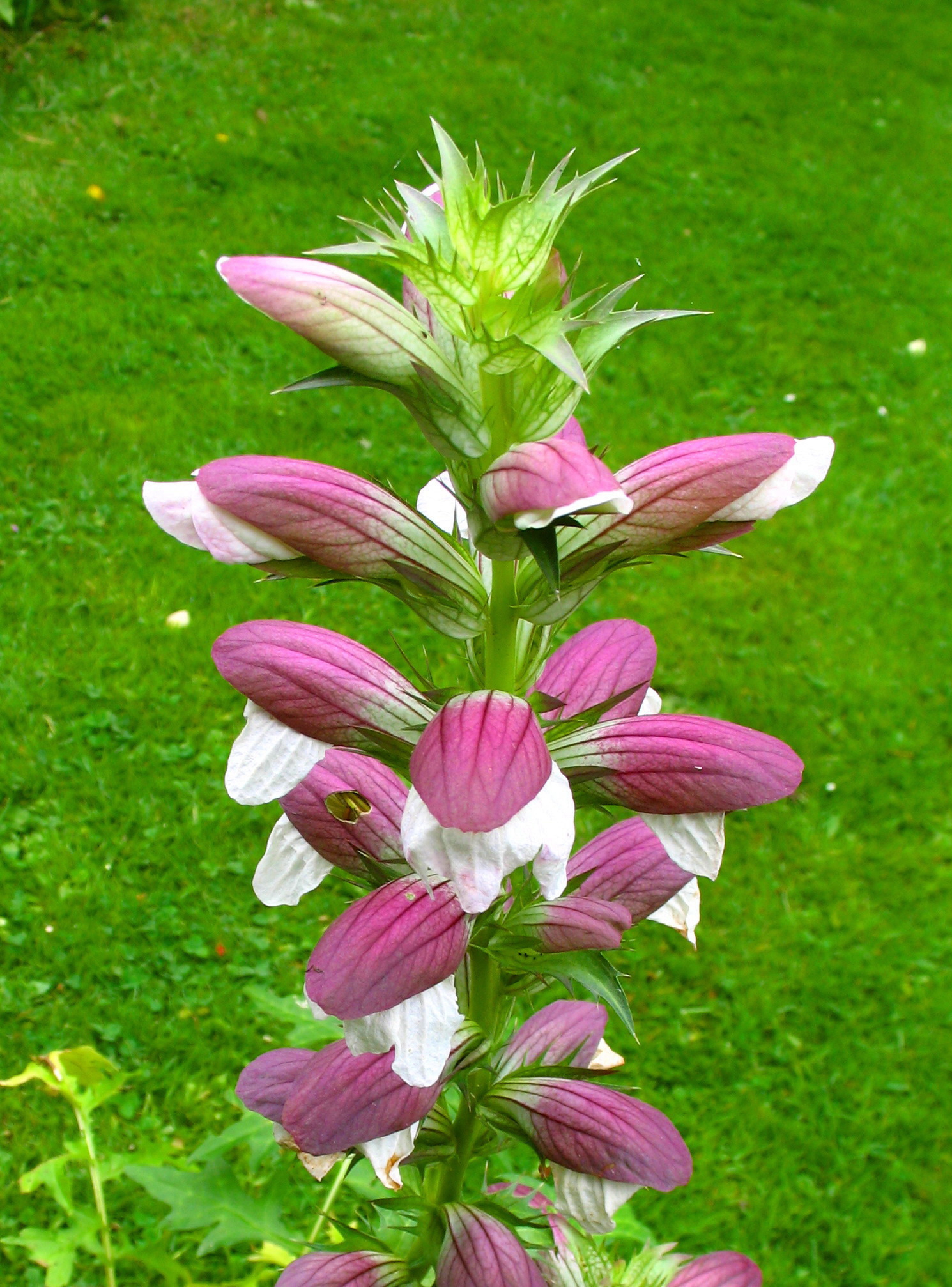 Acanthus mollis, fam. Acanthaceae